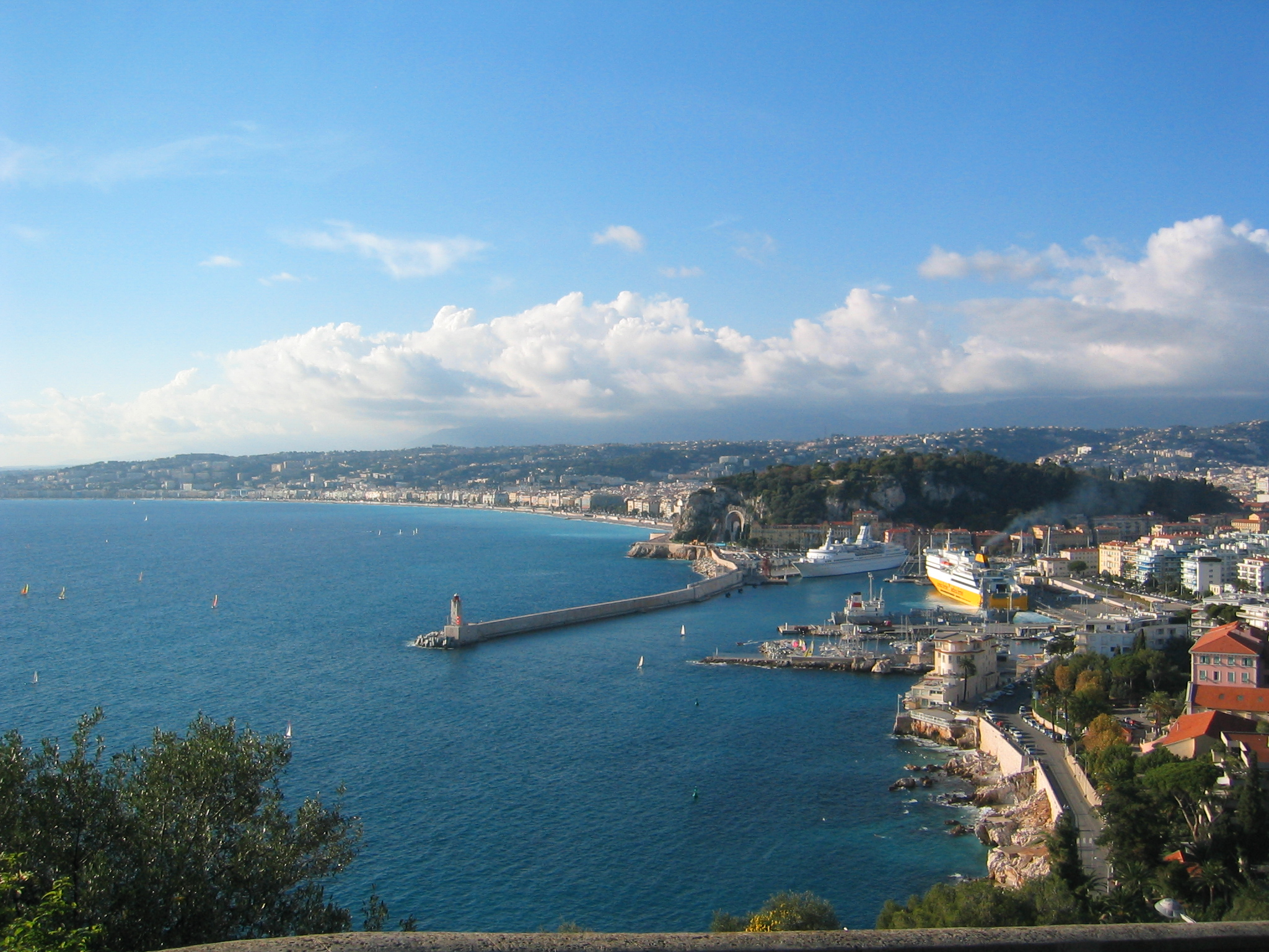 Port of Nice, Côte d'Azur